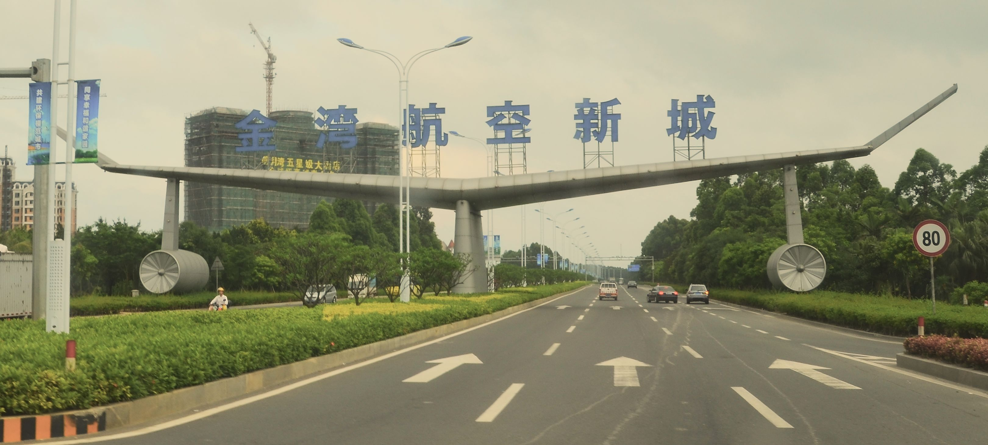 The jet plane shaped gate of Jinwan aerospace new town (金湾航空新城), containing the China Airshow and Zhuhai Jinwan Airport in Zhuhai.